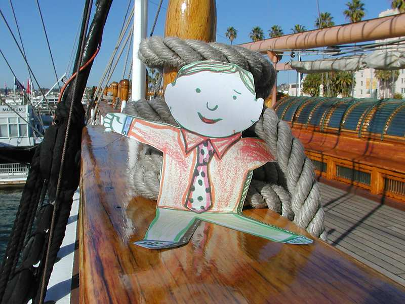 Flat Stanley manning a sailing ship.